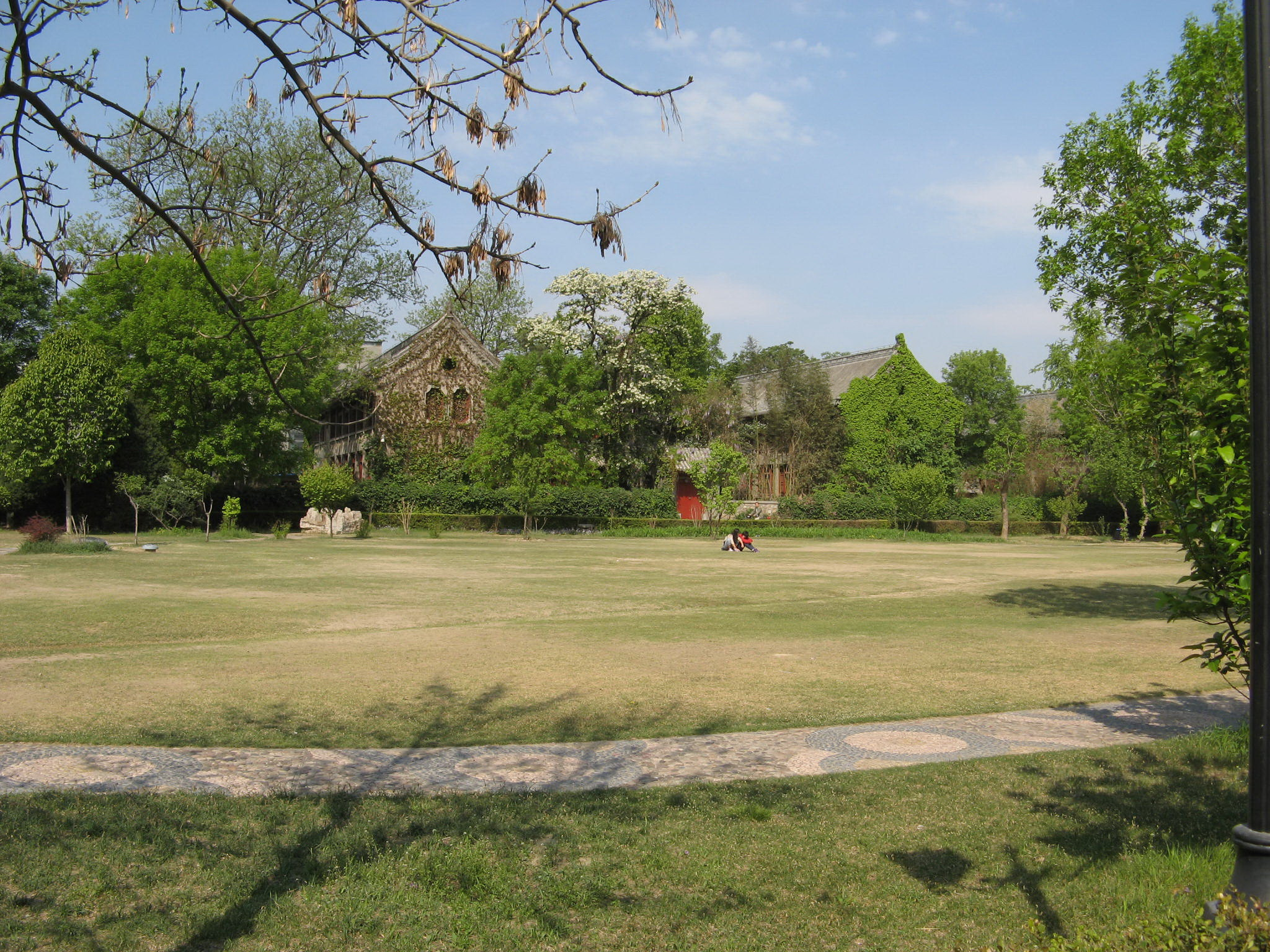 Grass, Jingyuan Garden, Peking University